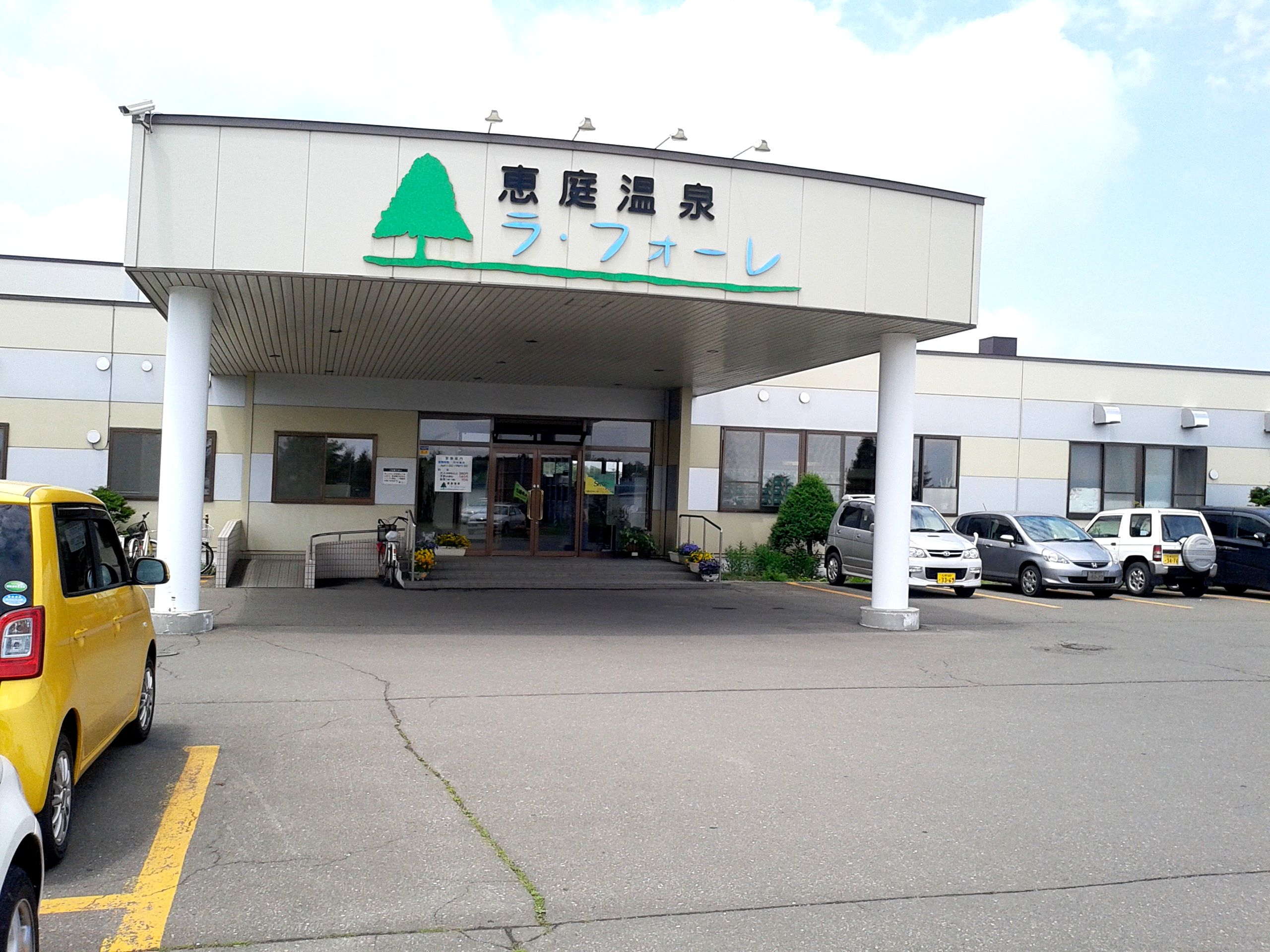 La Foret Onsen in Eniwa, Hokkaido